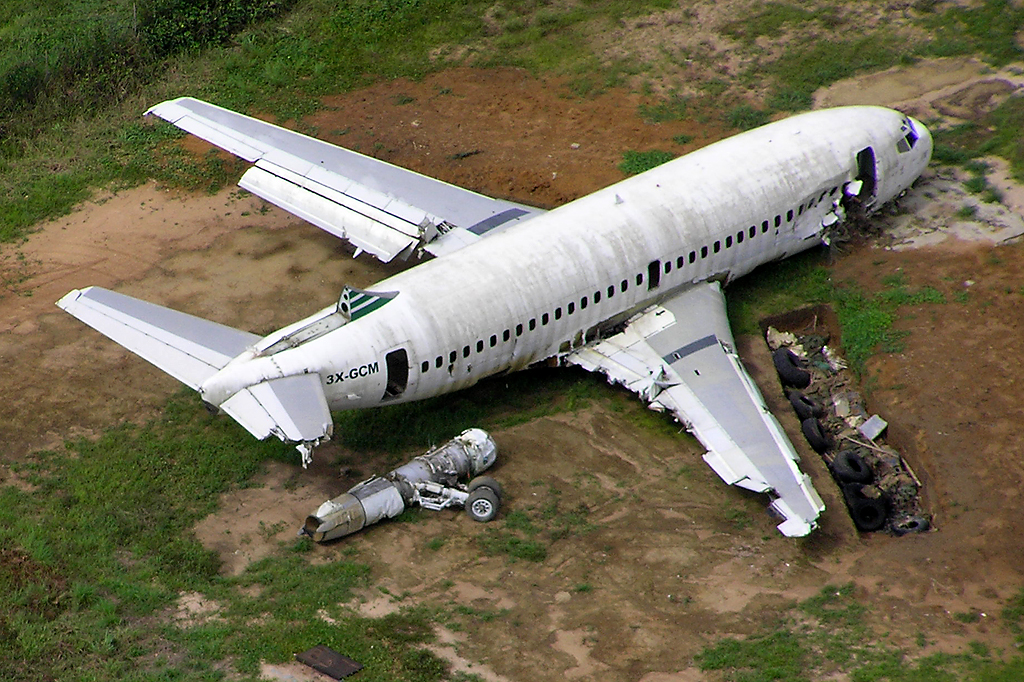 3X-GCM, Boeing 737-205, Air Guinee Express, Freetown - Lungi International Airport (FNA/GFLL), 17 July 2006 Mihai.crisan 00:23, 29 July 2007 (UTC); 11. August 2004, accident of a Boeing 737-205, tail number 3X-GCM, at Freetown-Lungi International Airport (FNA), Air Guinee Express, flight to Conakry and Banjul